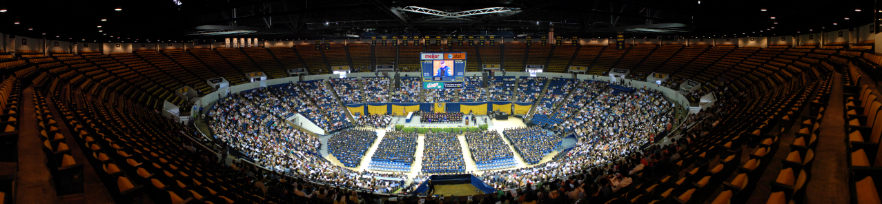 Crisler Arena Panorama, University Of Michigan, 2008, During Business School Graduation. Licensing CC license only applies to the file (1,278 × 296 pixels, file size: 604 KB, MIME type: image/jpeg)